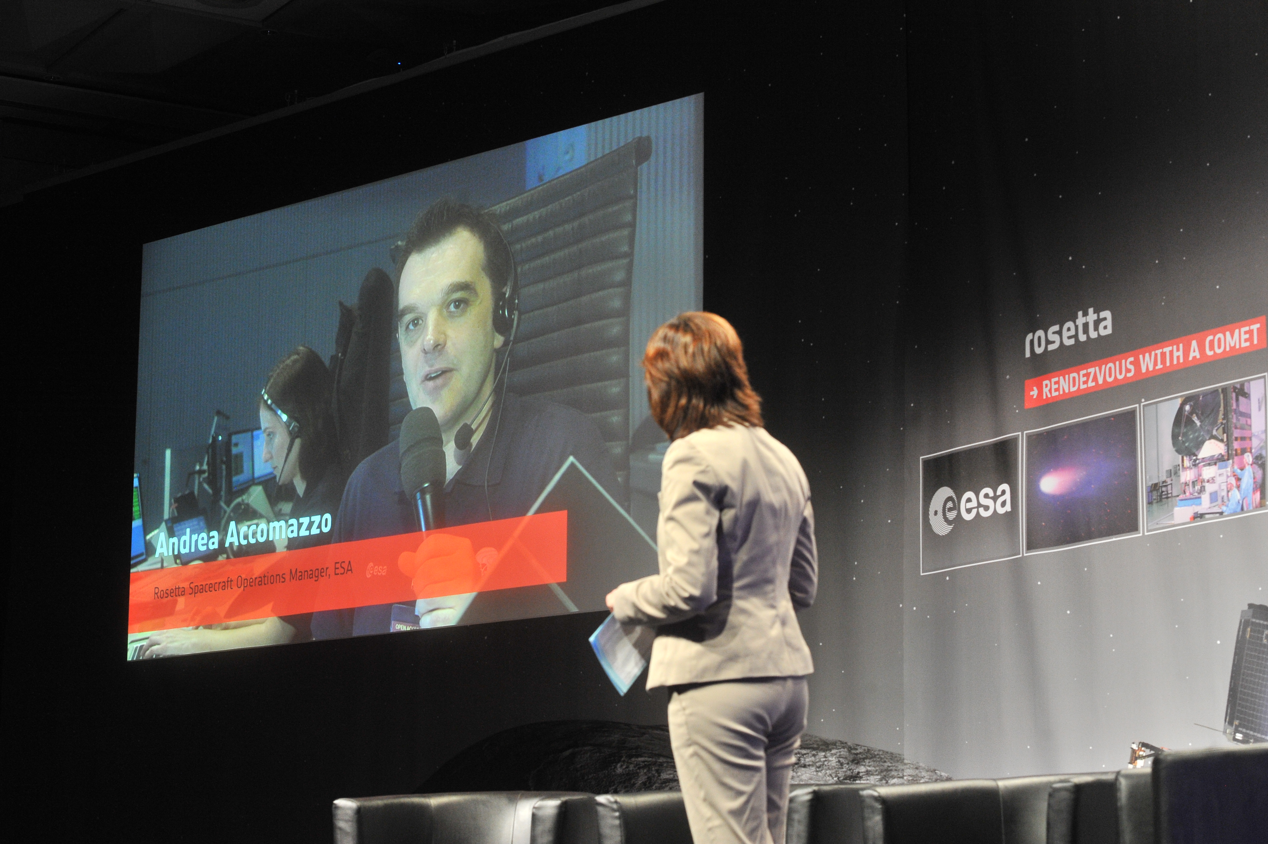 Andrea Accomazzo, ESA Rosetta Spacecraft Operations Manager, providing a live update from the Main Control Room at ESA's European Space Operations Centre, Darmstadt, Germany during the Rosetta wake-up day. Credit: ESA - Jürgen Mai